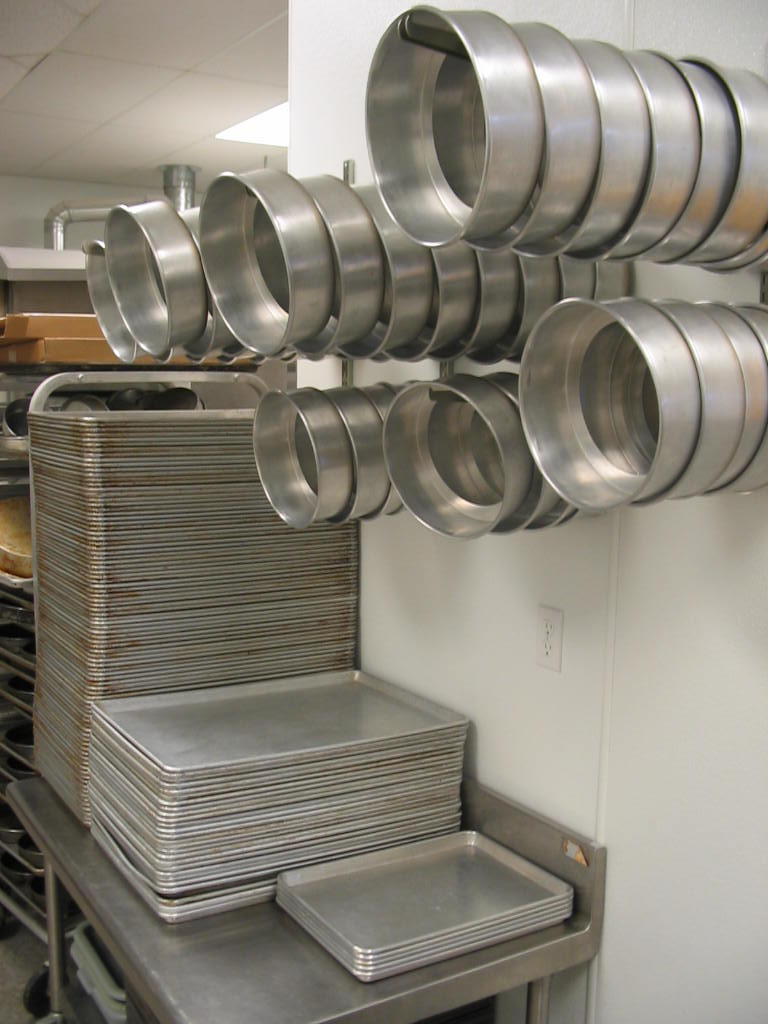 Cheesecake and sheet pans waiting for batters.